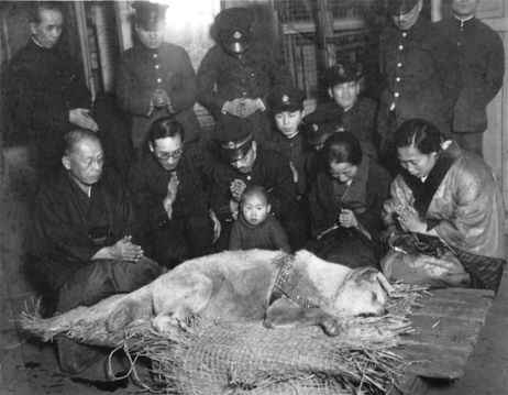 Last known photo of Hachiko's death along with his owners wife Yaeko Ueno (front row, second from right) and station staff in mourning in Tokyo on March 8, 1935. (Photo provided by Shibuya Folk and Literary Shirane Memorial Museum)